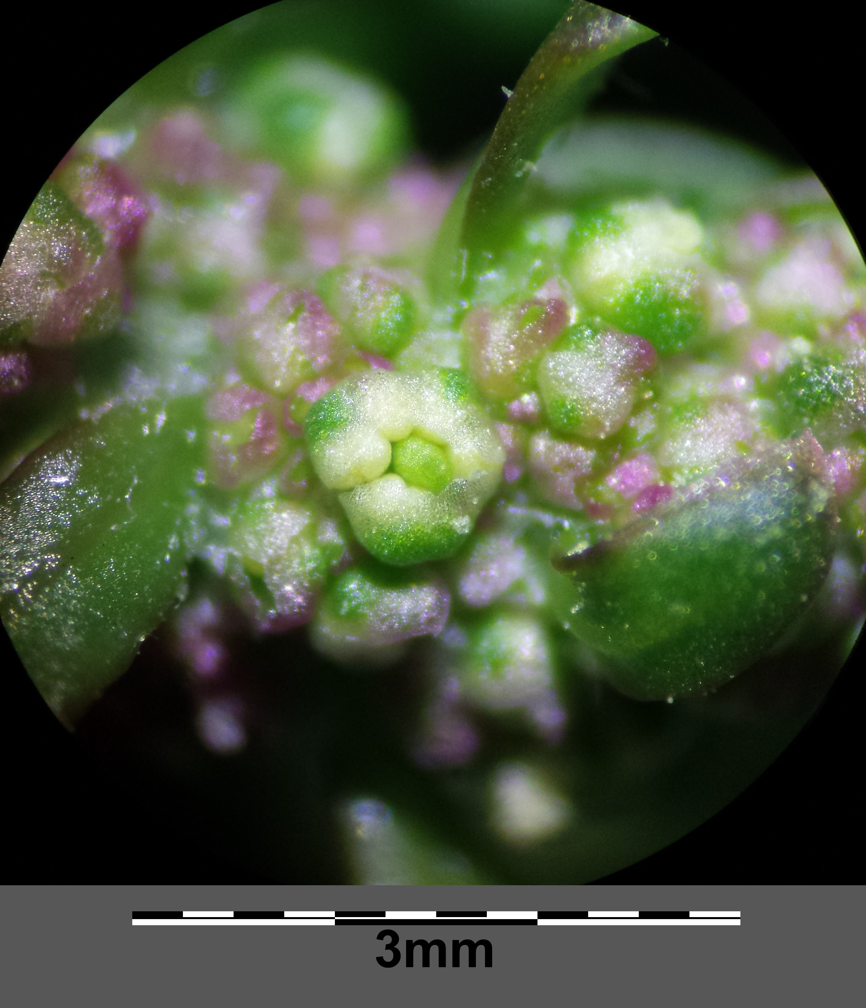 Inflorescence Taxonym: Chenopodium rubrum ss Fischer et al. EfÖLS 2008 ISBN 978-3-85474-187-9 Location: Žárský rybník, Jihočeský kraj, Czech Republic - ca. 500 m a.s.l. Habitat: dungheap